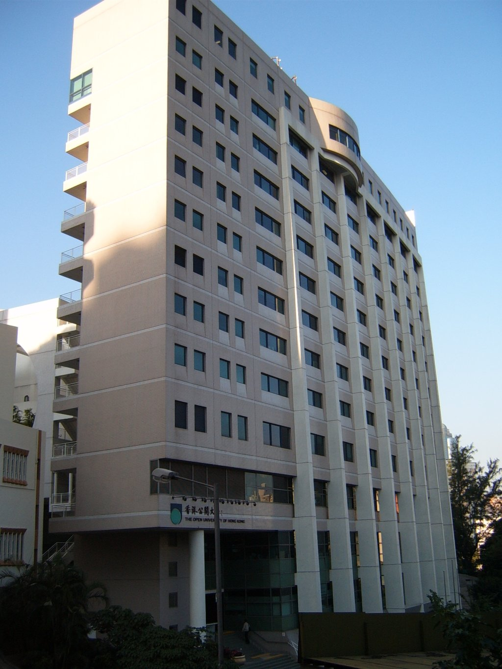 Open University of Hong Kong. Photo taken by myself (User:Sl) on November 2005. 香港公開大學，從何文田佛光街拍攝。